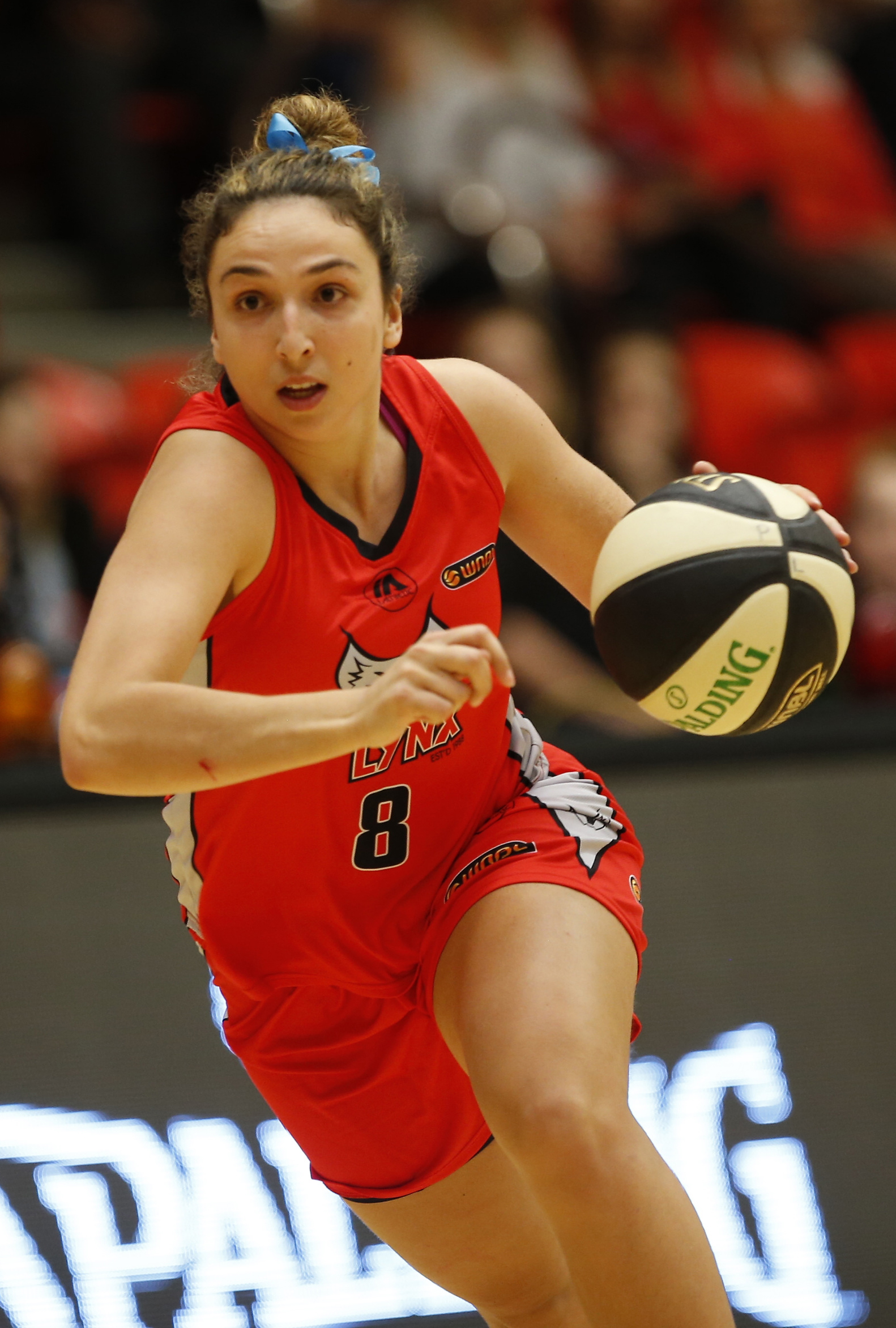 Alex Ciabattoni in action for the Perth Lynx.